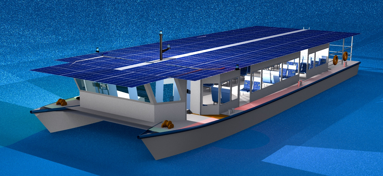 3-D rendering of the Boat